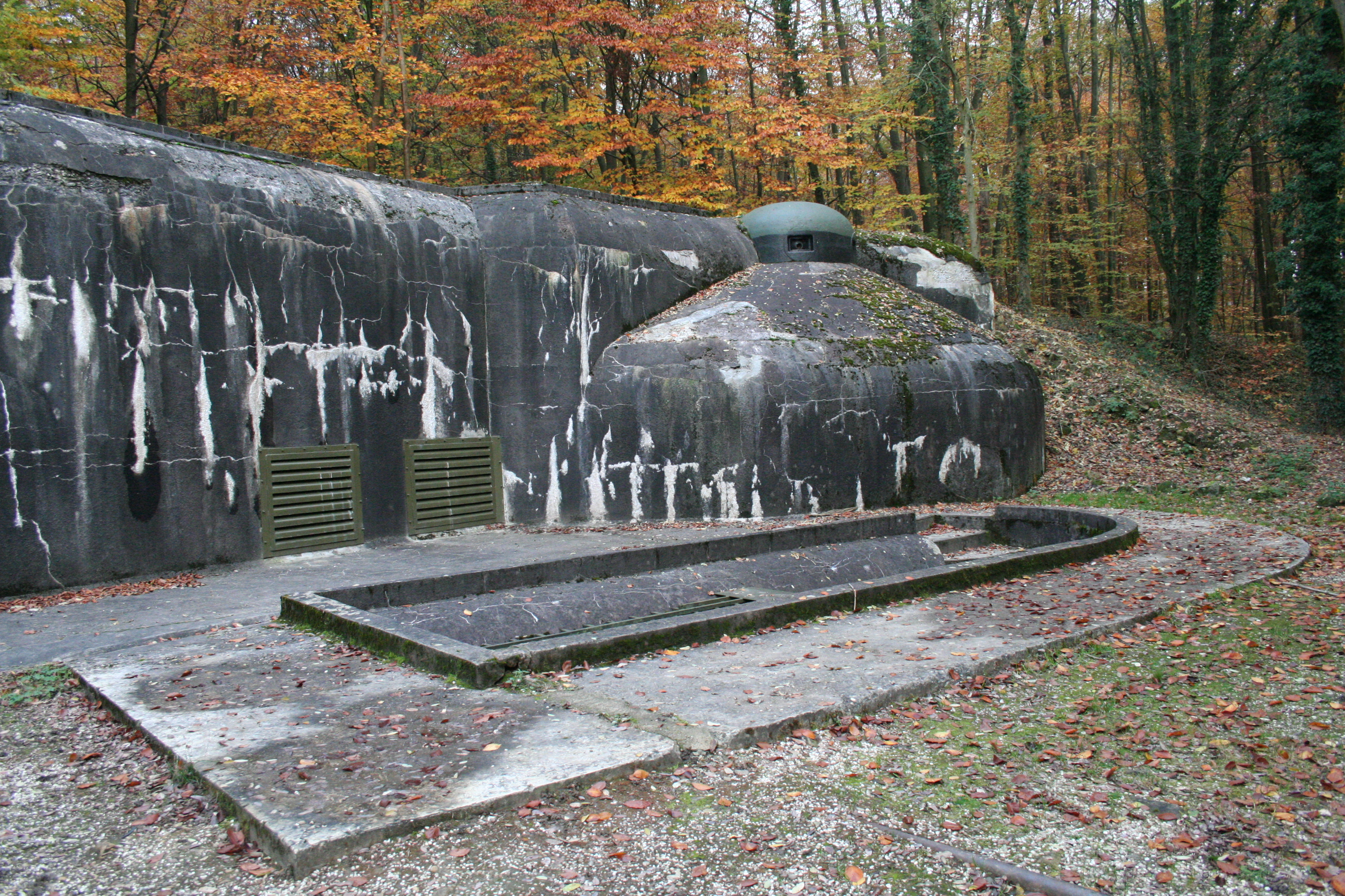 Personnel entrance to Ouvrage de Schoenenburg bunker, Ligne Maginot, Alsace, France. Photographed 12/Nov/2005, Canon EOS 350D